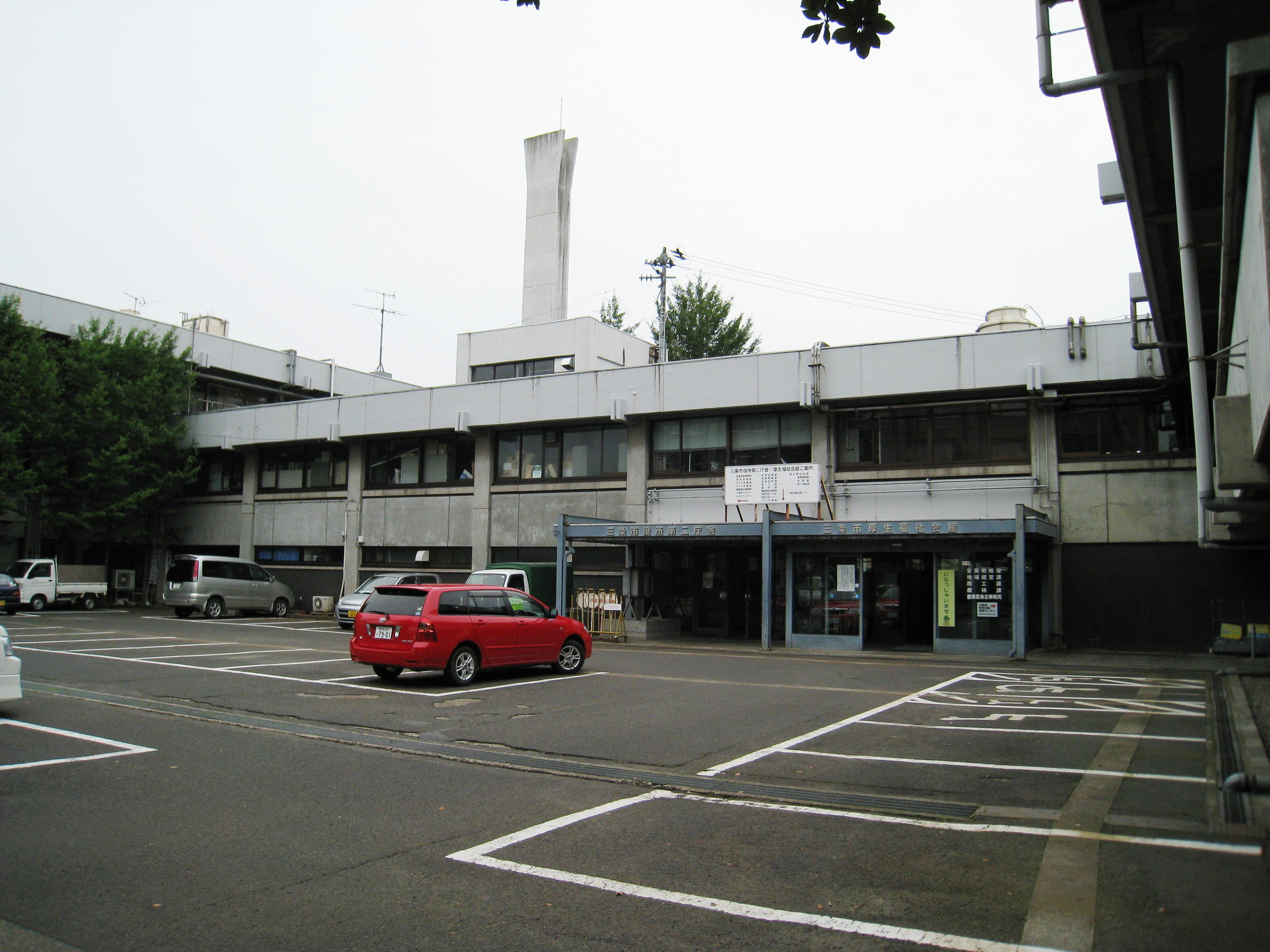 Sanjo-CityHall Annex. Niigata-Pref, Japan